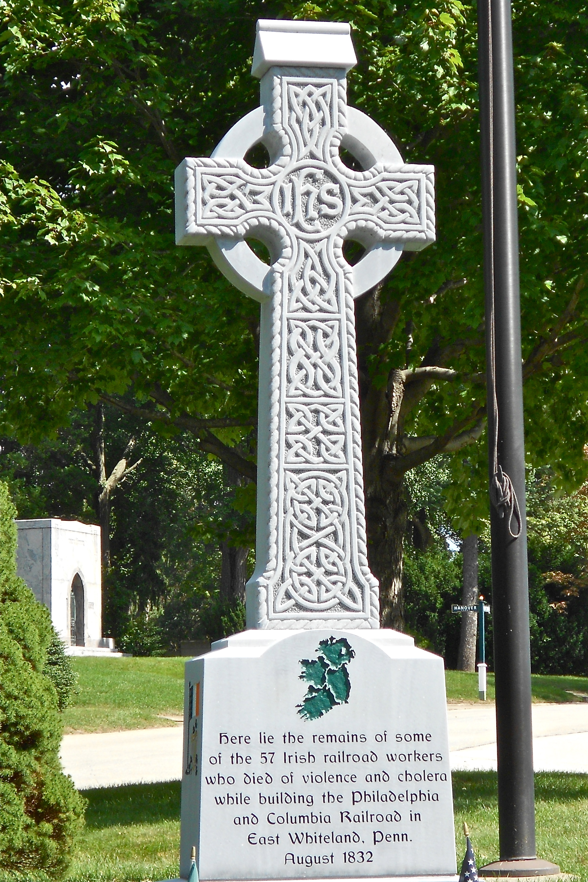 West Laurel Hill Cemetery Art object in West Laurel Hill Cemetery in Montgomery County, Pennsylvania on the NRHP